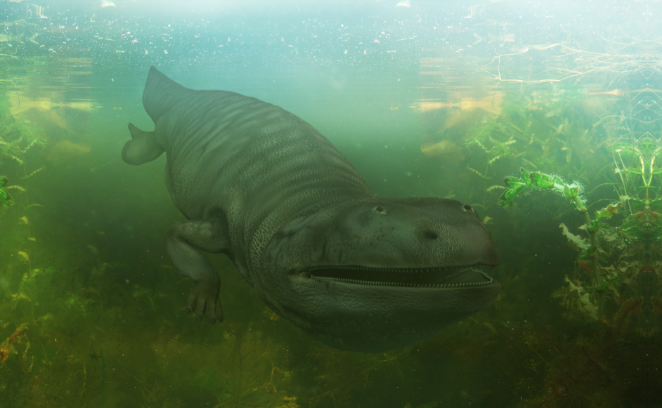 Metoposaurus digital reconstruction